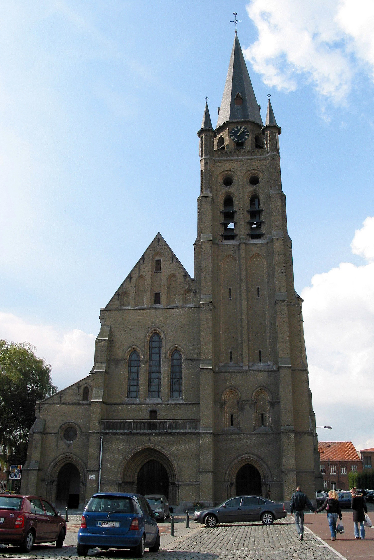 Comines (Belgium) the St. Chrysole church (1912).